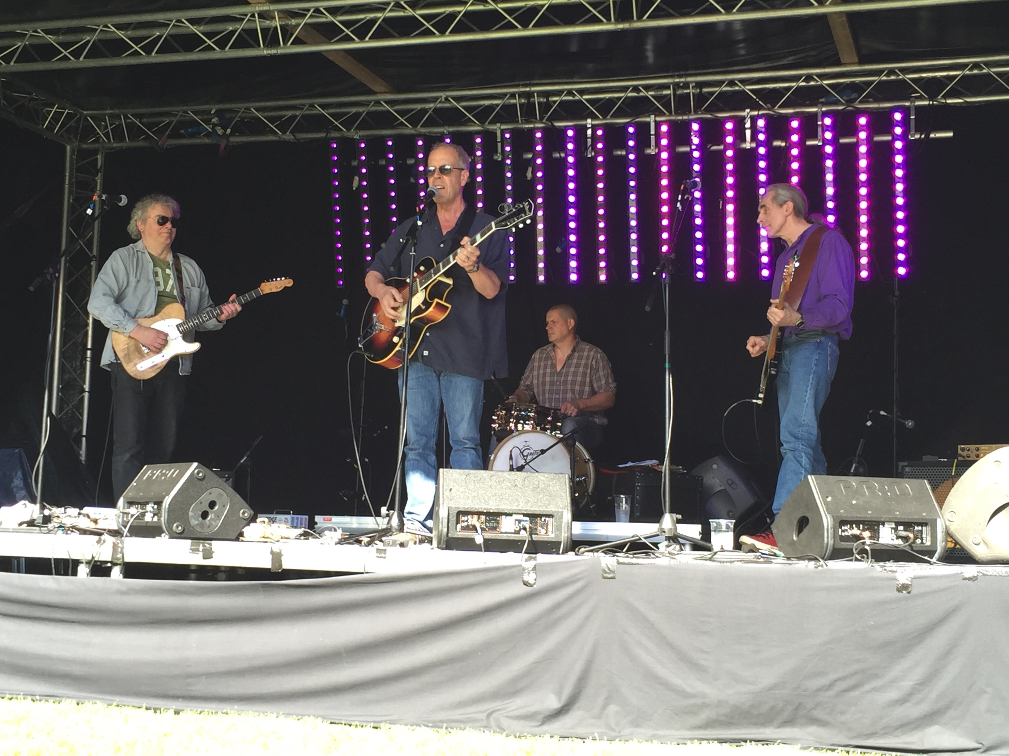 At Swavesey Festival 2015